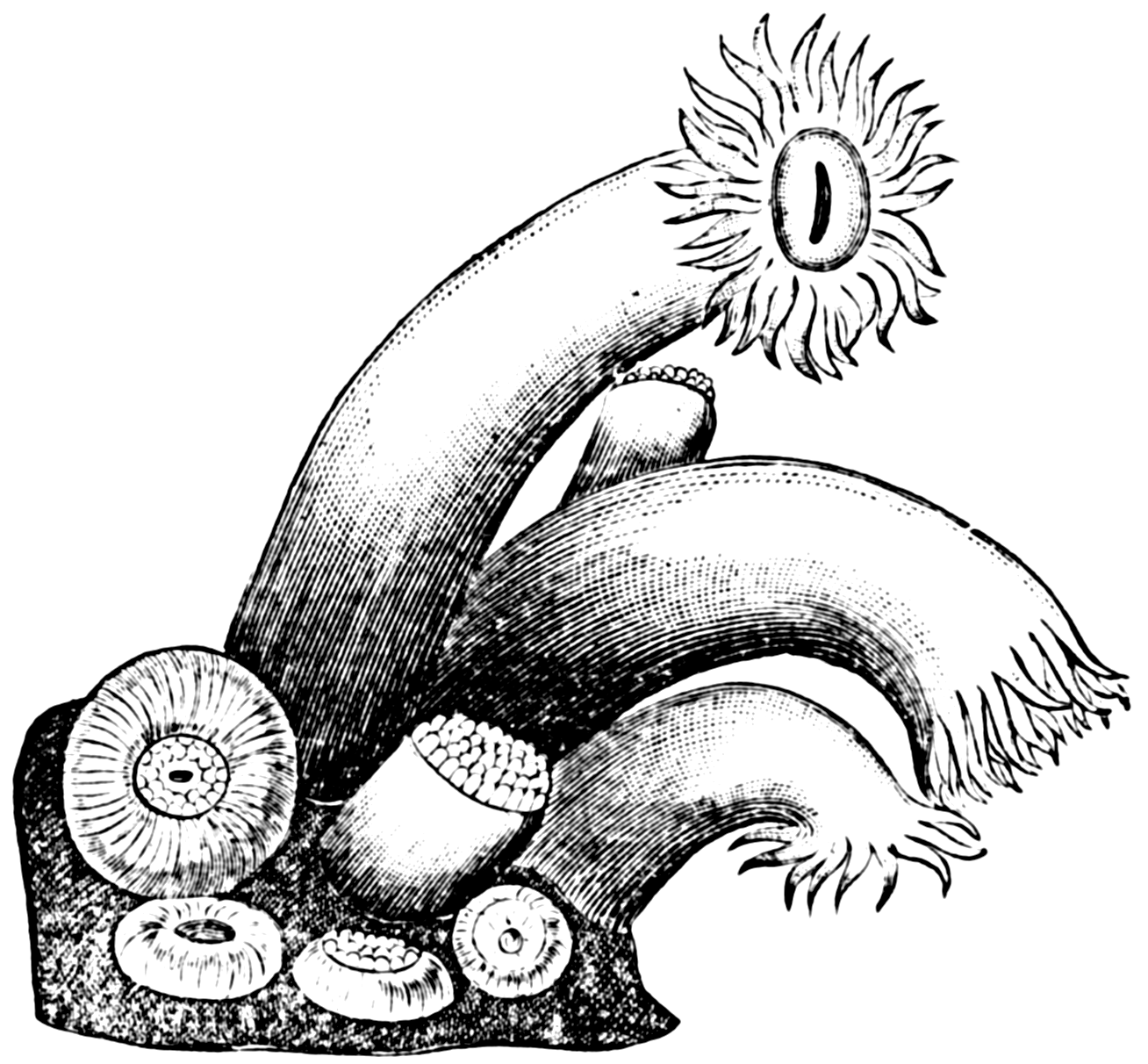 Line art drawing of polyps.